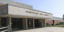 A photograph of the front of Perryville High School.